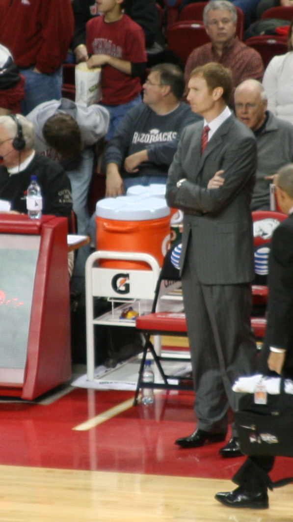 John Pelphrey on the sidelines of the Arkansas - Georgia game of March 1st, 2009.